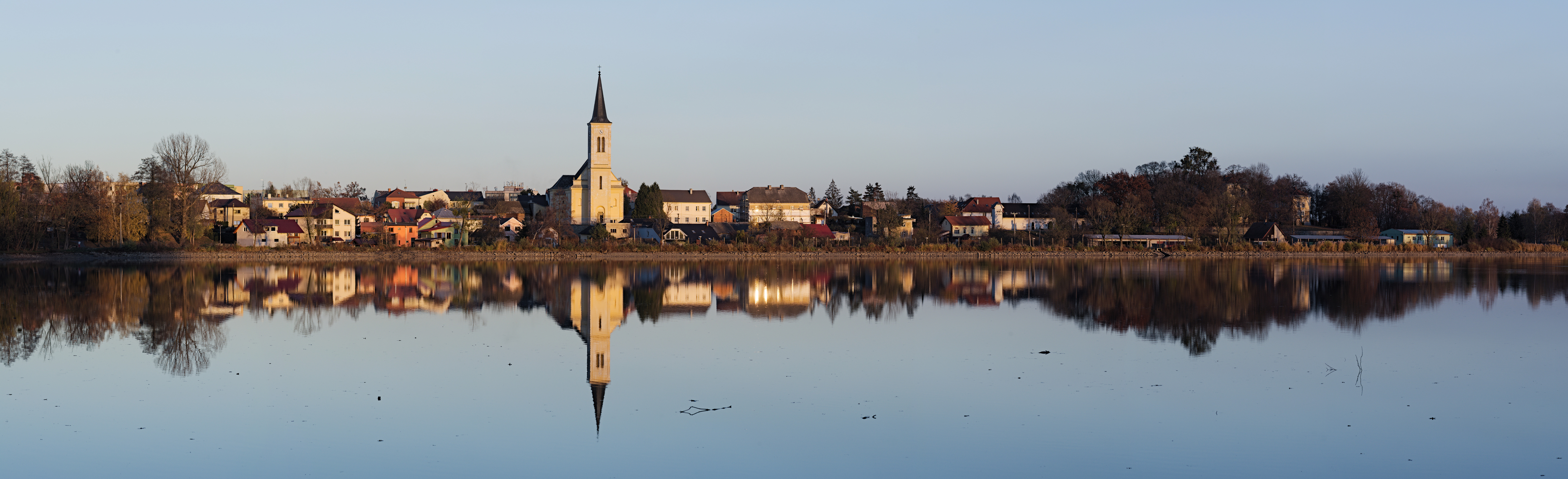 Town of Dolní Benešov